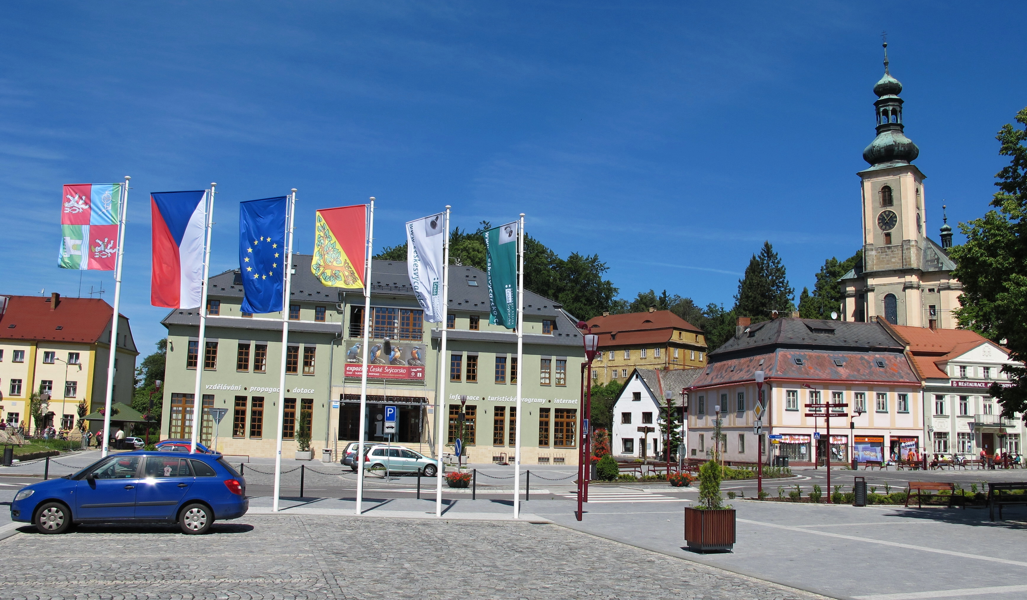 House of Bohemian Switzerland, church and Křinice Square in Krásná Lípa, Děčín District